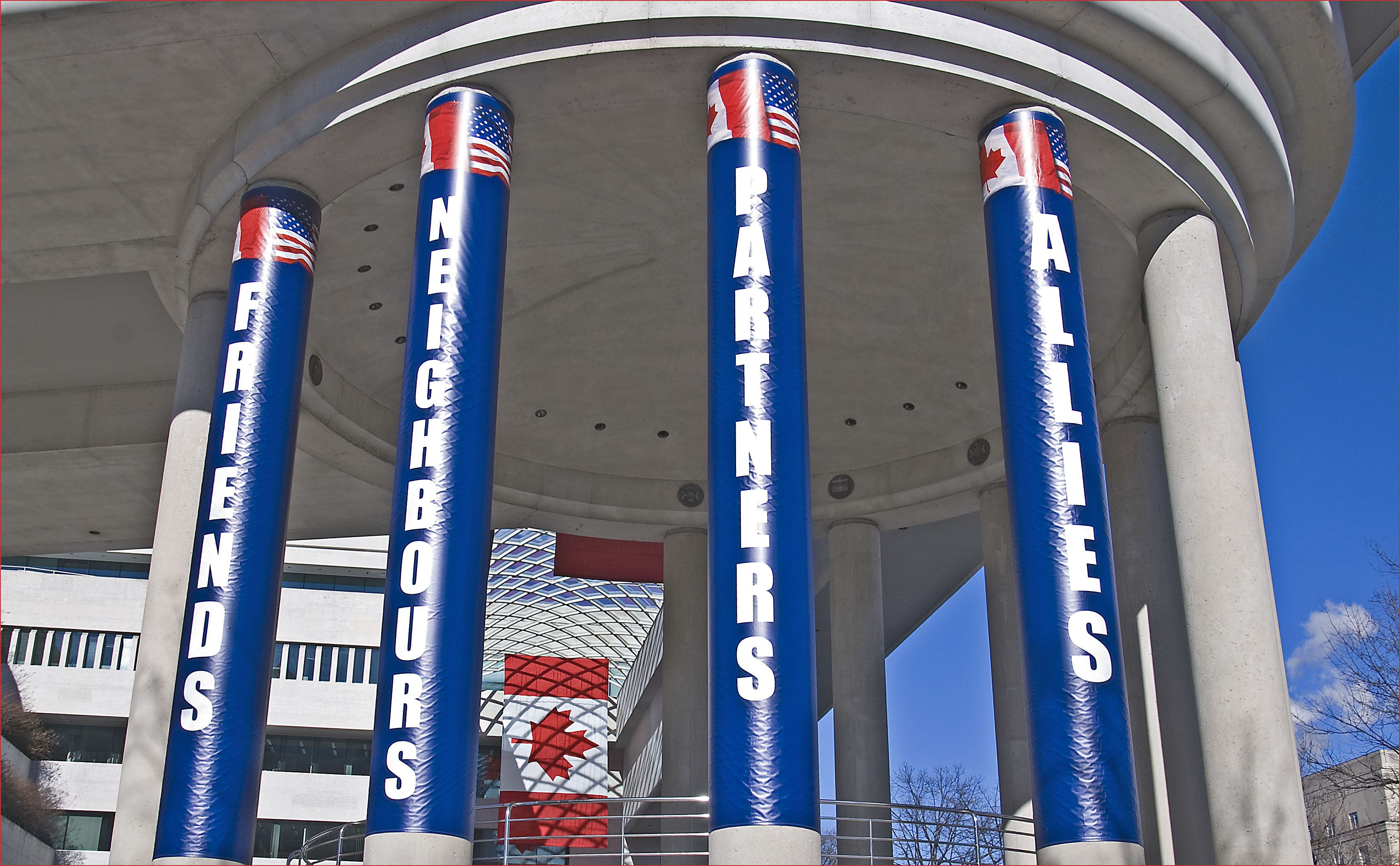 Banners reading "Friends", "Neighbours", "Partners" and "Allies" at the Canadian Embassy in Washington, D.C., United States, in January 2013.